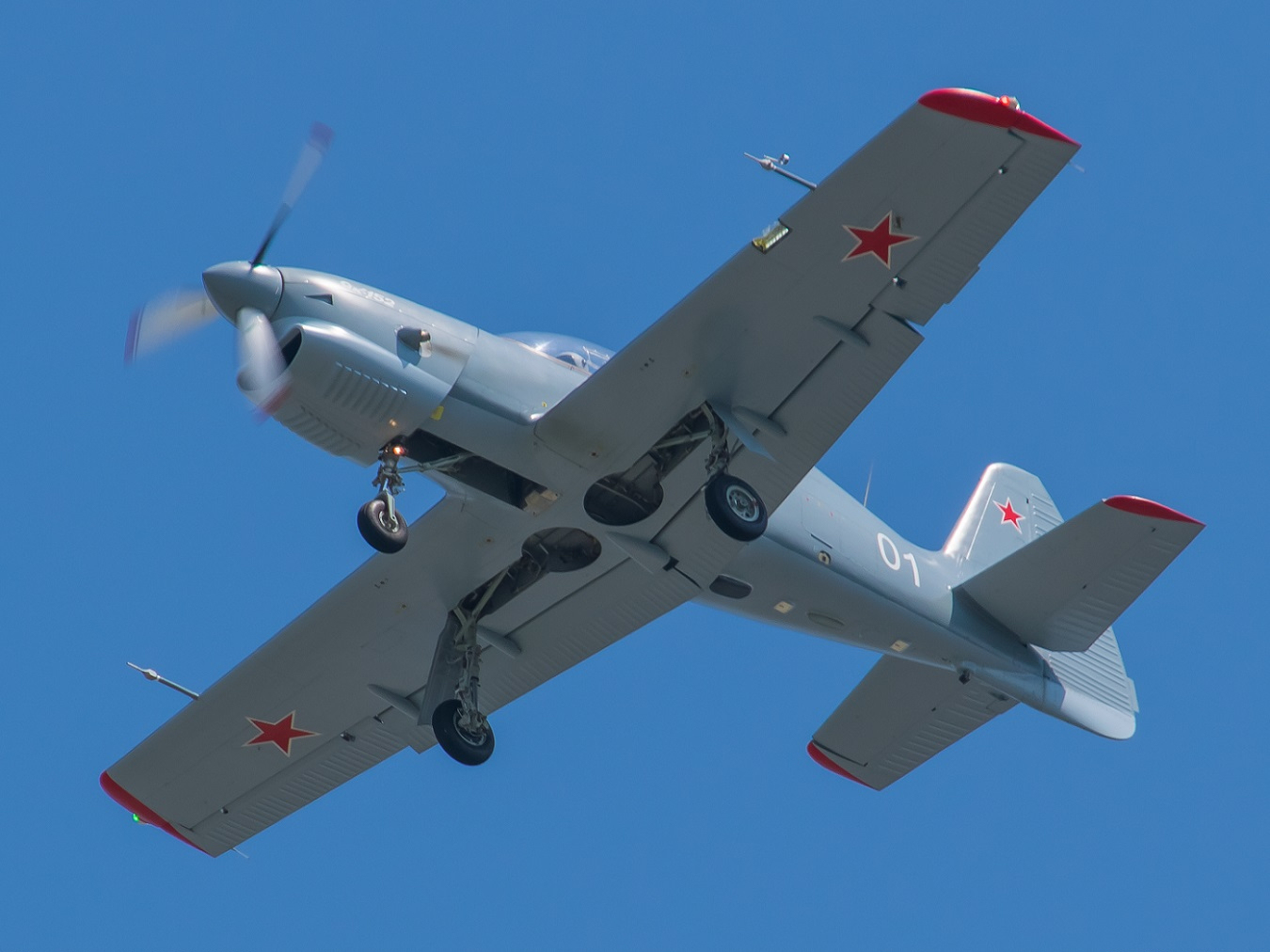 Yakovlev Yak-152 prototype in flight in Irkutsk